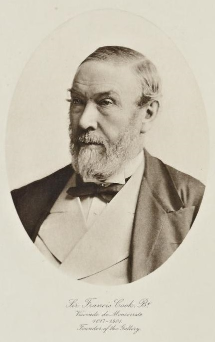 Portrait of Sir Francis Cook, 1st Viscount of Monserrate from the frontispiece to the catalogue of his art collection, published in 1913